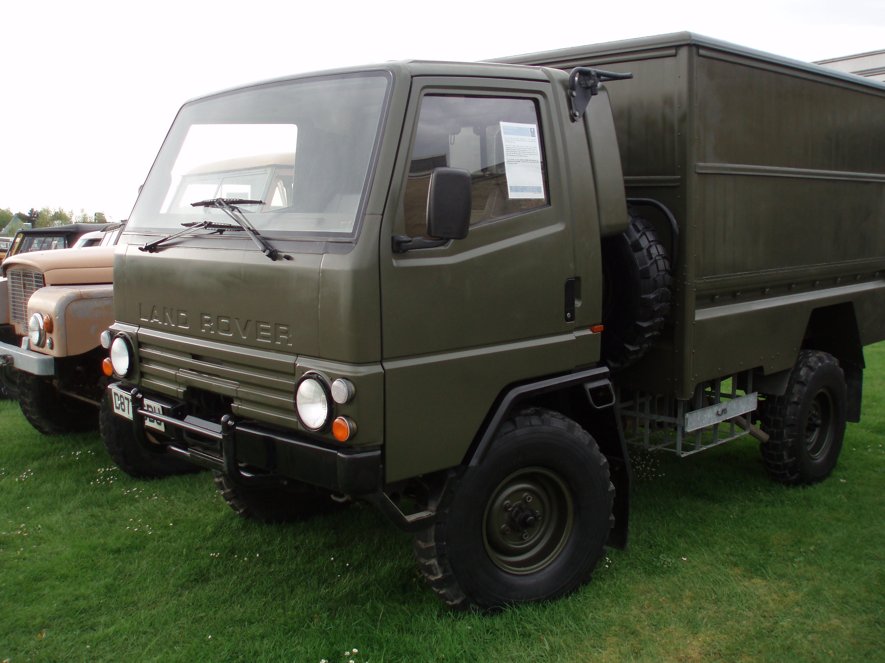 The sole pilot-production example of the Land Rover 'Llama', an aborted forward-control version of the Land Rover One Ten designed in the 1980s. This vehicle is on display at the British Motor Industry Heritage Centre at Gaydon, Warwickshire.